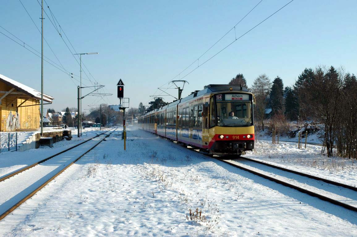 triple car accelerated train with AVG car no. 914 of type GT8-100D at first position, location: Schwaigern, train number: E 85474